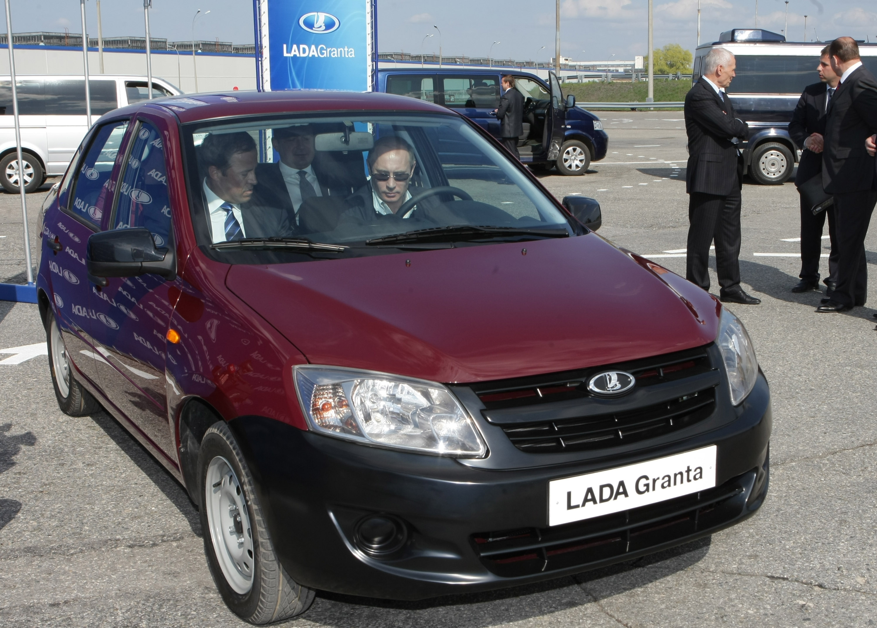 Prime Minister Vladimir Putin visits AvtoVAZ and tests the new Lada Granta economy car.